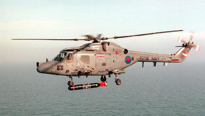 Lynx Mk3 Royal Navy drops a Torpedo